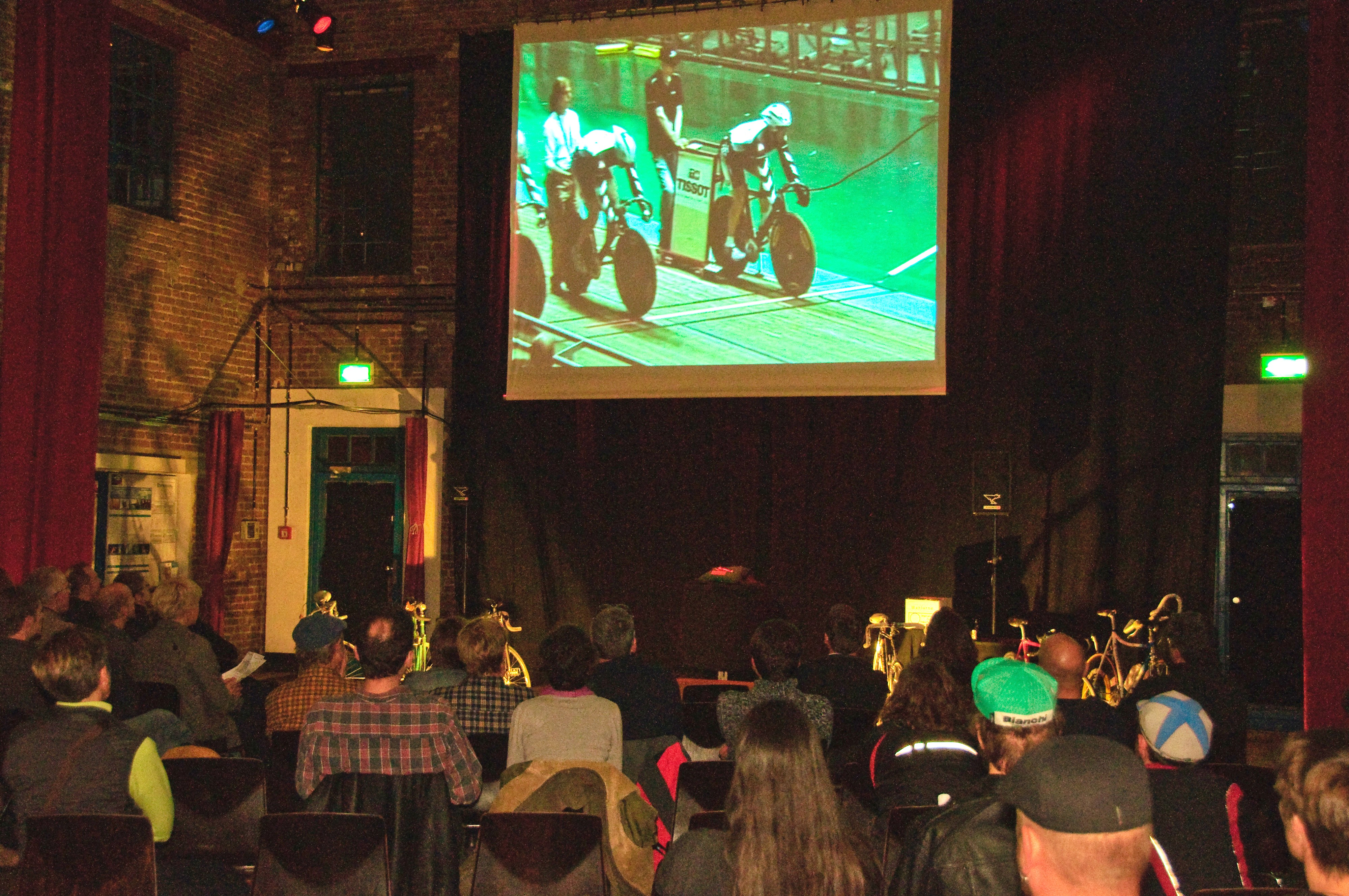 International Cycling Film Festival's official press photo 2009. On the screen the film "Standing Start" by Adrian McDowell, Finlay Pretsell, Scotland, 2007